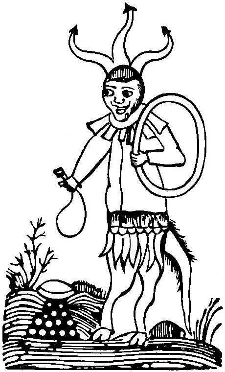 Lucifuge Rofocale (The Grand Grimoire)